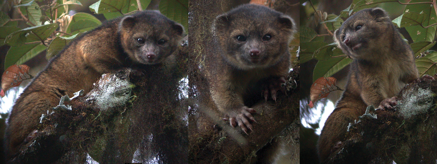 Three photographs of Bassaricyon neblina "Olinguito" taken in the wild at Tandayapa Bird Lodge, Ecuador.